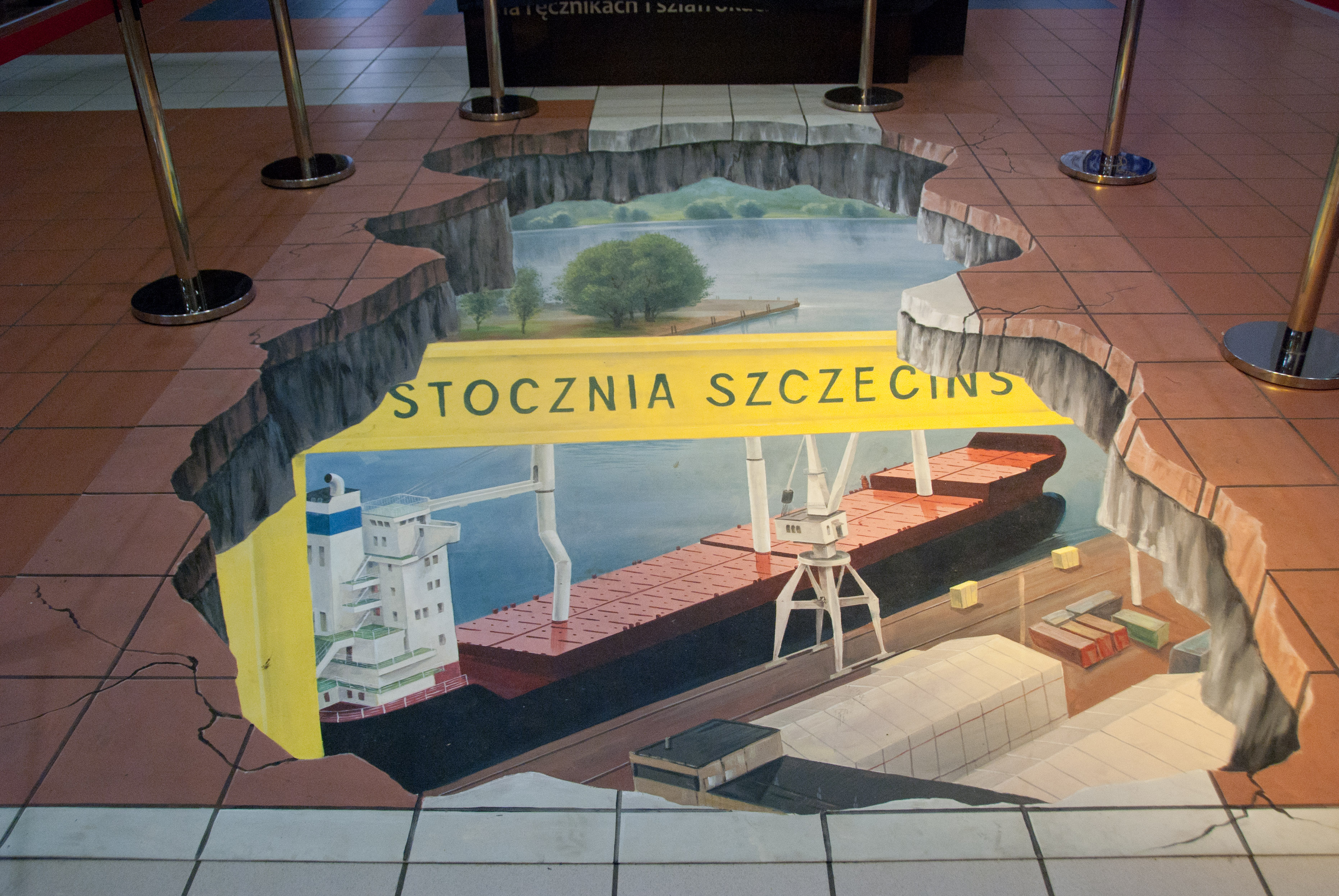 Street paint of Stocznia Szczecinska done by Manfred Stader in October 2010 in Szczecin, Poland